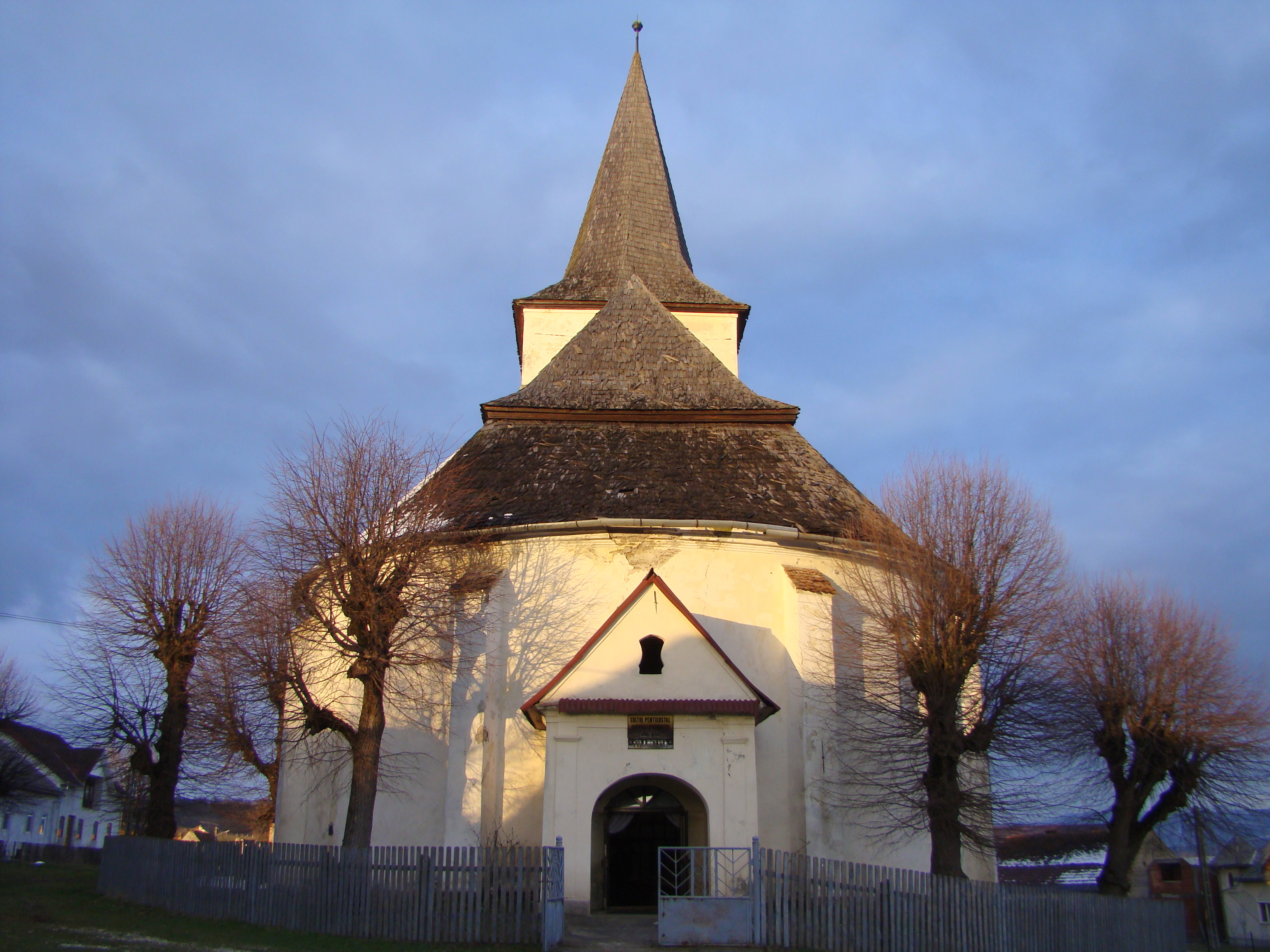 Lutheran church in Monariu, Bistrița-Năsăud county, Romania